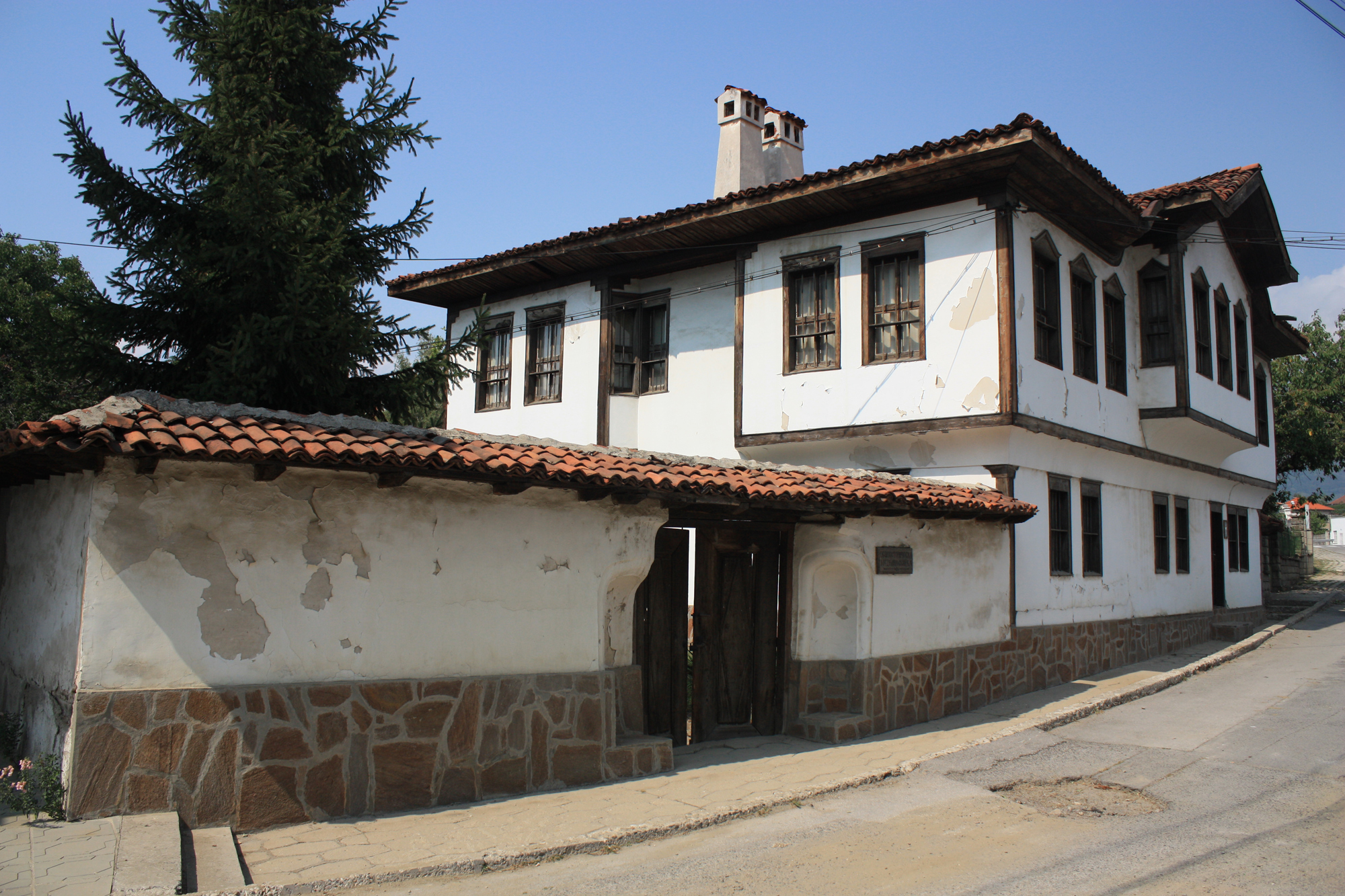 Lukanov House - an architectural monument in Pirdop, Bulgaria